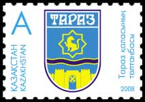 Stamp of Kazakhstan